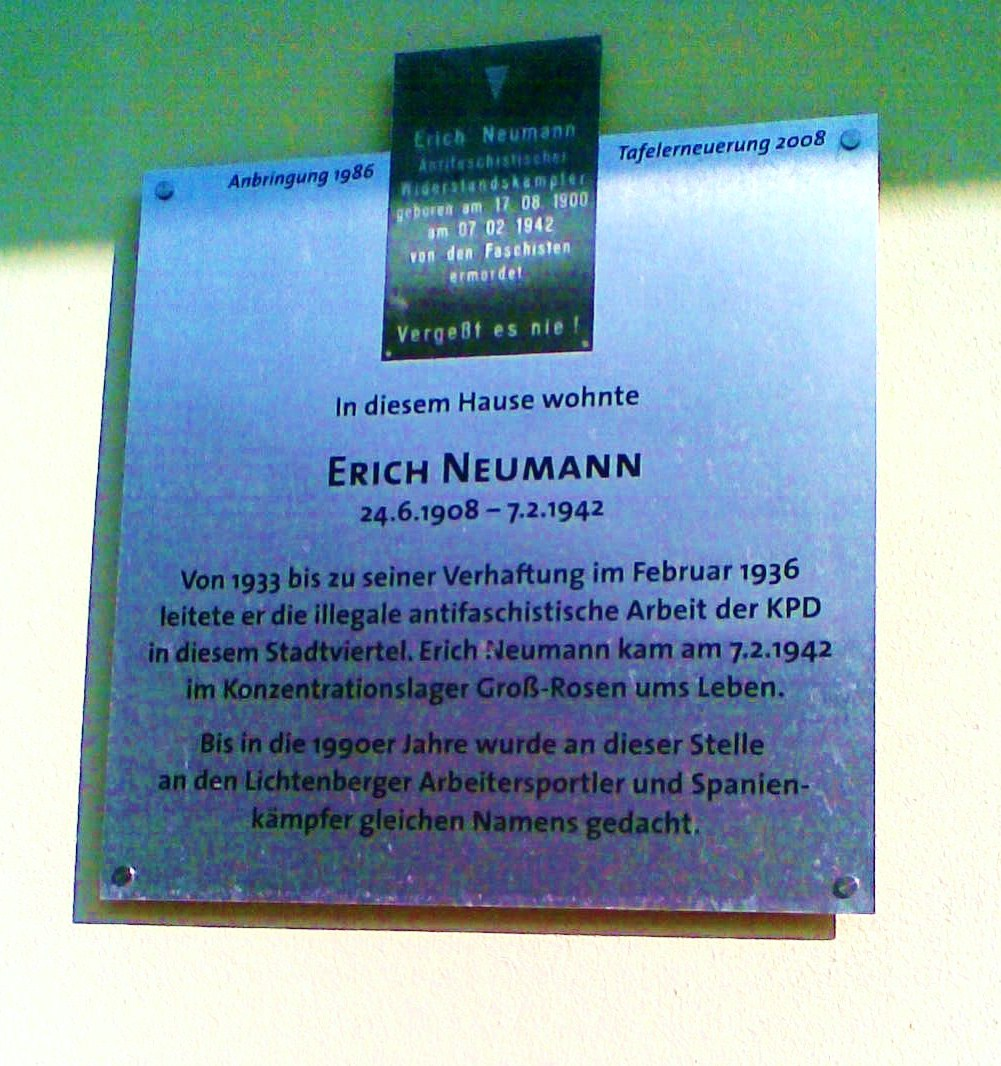 Memorytable for Erich Neumann (*24.6.1908 +7.2.1942) a german antifascist in Berlin. He lived in Berlin-Weißensee, Gürtelstraße 13 till he was murdered in the concentration-camp by nazis 1942.